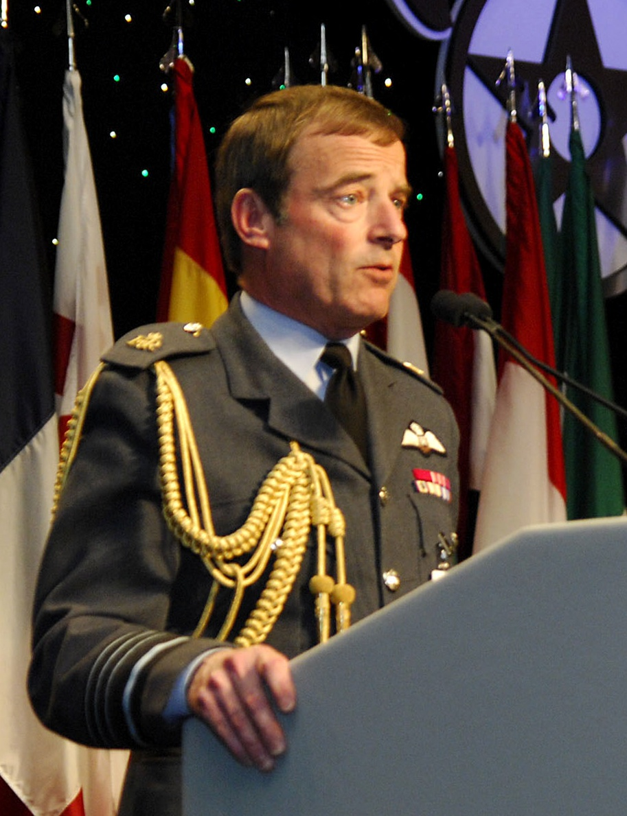 Air Chief Marshal Sir Glenn Torpy addresses more than 90 international air chiefs Sept. 25 at the second of three forums held during the Global Air Chiefs Conference at the Marriott Wardman Park Hotel in Washington. Air Chief Marshal Sir Torpy is the Royal Air Force chief of staff. (U.S. Air Force photo/Mike Paussic)